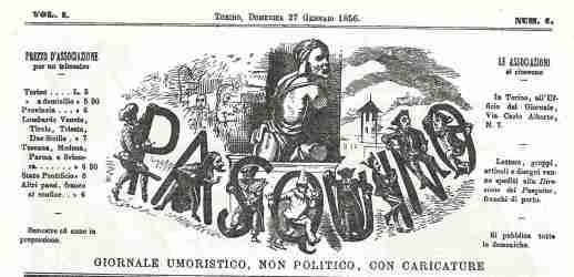 Headline of the January 27, 1856 issue of magazine "Il Pasquino", printed in Turin